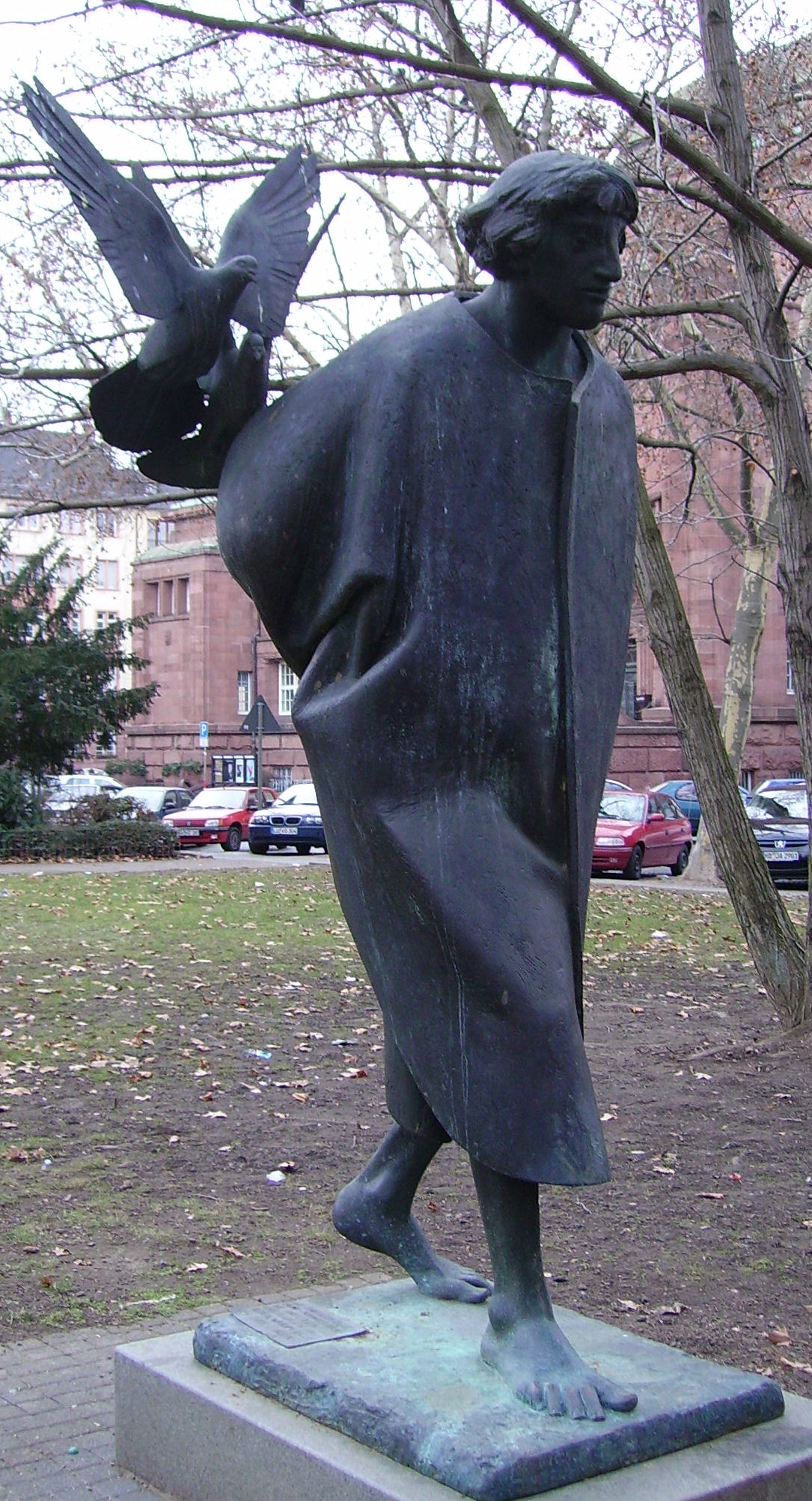 Statue of St. Francis of Assisi by Martin Mayer, near the Kunsthalle in Mannheim, Germany